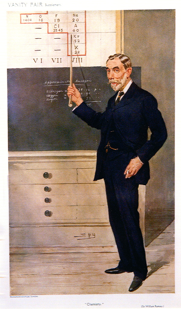 Caricature of Sir William Ramsay (October 2, 1852 – July 23, 1916), a Scottish chemist. Caption read "Chemistry".